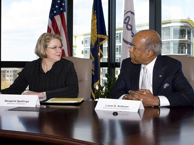 Secretary Spellings and Dr. Louis Sullivan, dean of the Morehouse School of Medicine, talk at a round table discussion at Morehouse College in Atlanta, Georgia.